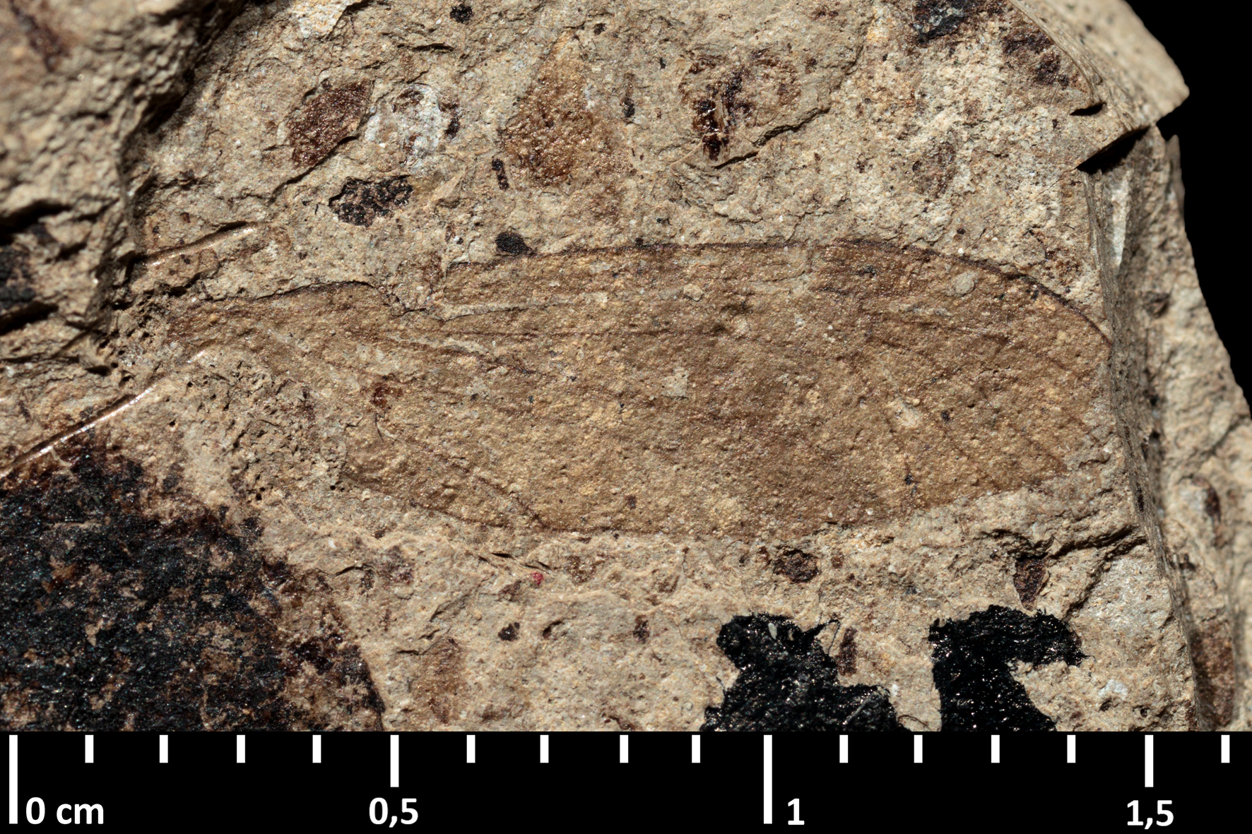 The Tipula (Tipula) oligocenica holotype part specimen with direct lighting. Aquitanian, Miocene; Bes-Konak, Anatolia, Turkey Muséum national d'Histoire naturelle specimen MNHN.F.A38732